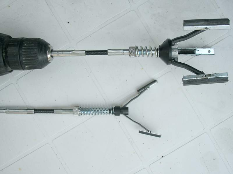 Hones Keywords: Hone, metalworking, cutting, finishing